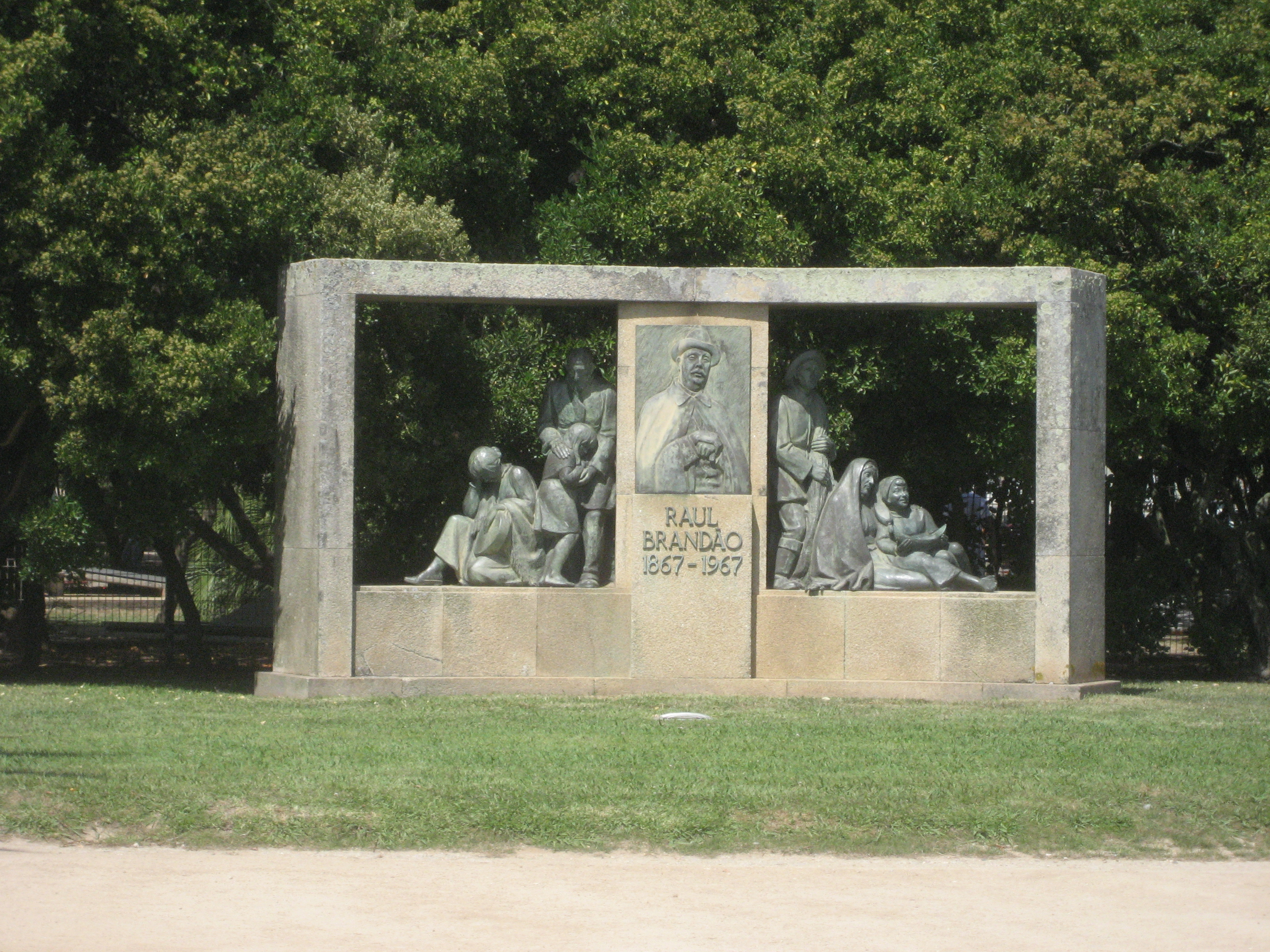 Monument in commemoration of Raul Brandão (1867-1930) in Porto (Portugal). Sculptor: Henrique Moreira